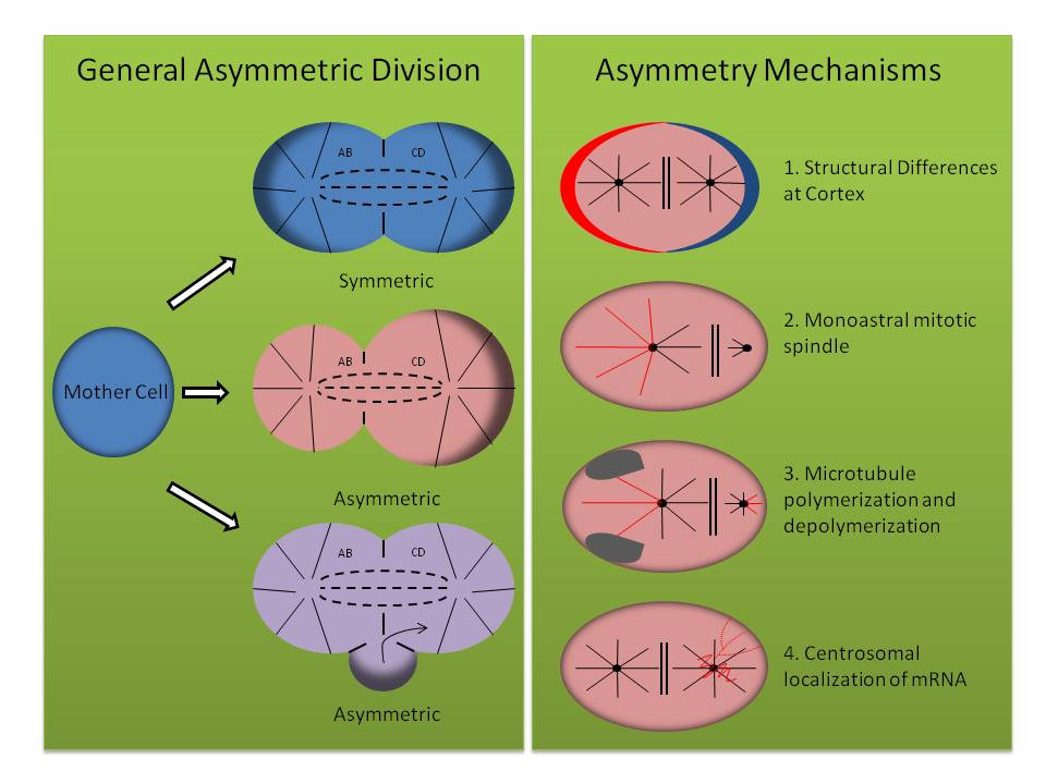 Mechanisms of asymmetric cell divisions in spiralian embryos.